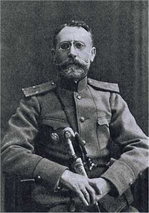 Gilchefsky, Konstantin Lukich